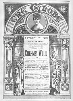 Programme for performance of H.A. Rendle's "Chesney Wold," at the Globe Theatre, Boston, Massachusetts, USA, week of March 24th, 1873